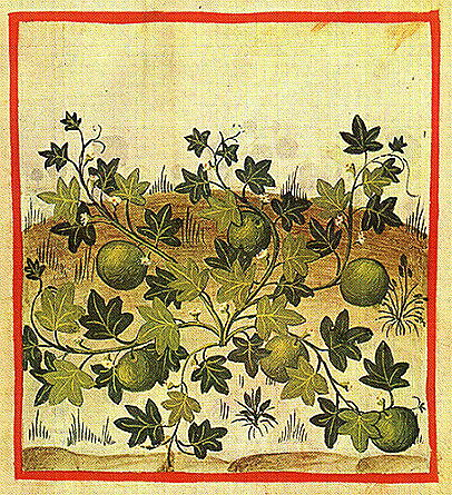 Indus or Palestinian Melons (Melones Indi Idest Palestini) Nature: Cold and humid in the second degree. Optimum: Those that are sweet and watery. Usefulness: Good in illnesses. Dangers: Bad for the digestion. Neutralization of the Dangers: With barley-sugar. From the Tacuinum of Rouen